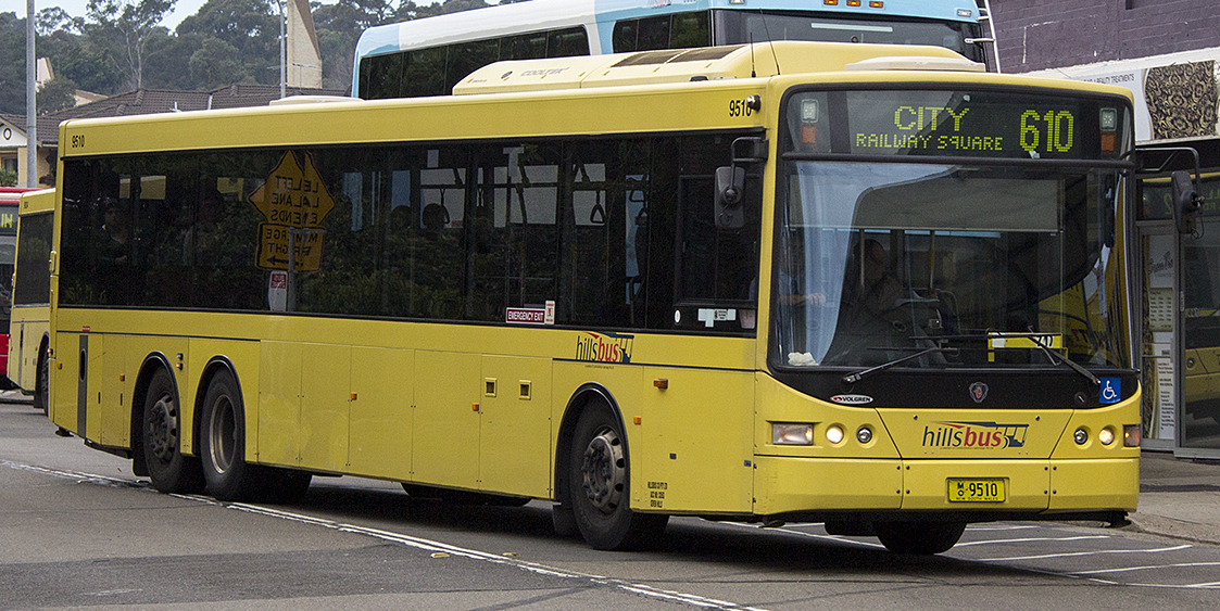 Hillsbus (mo 9510) Volgren 'CR228L' bodied Scania K310UB 14.5m at Castle Hill Interchange in Castle Hill, New South Wales.